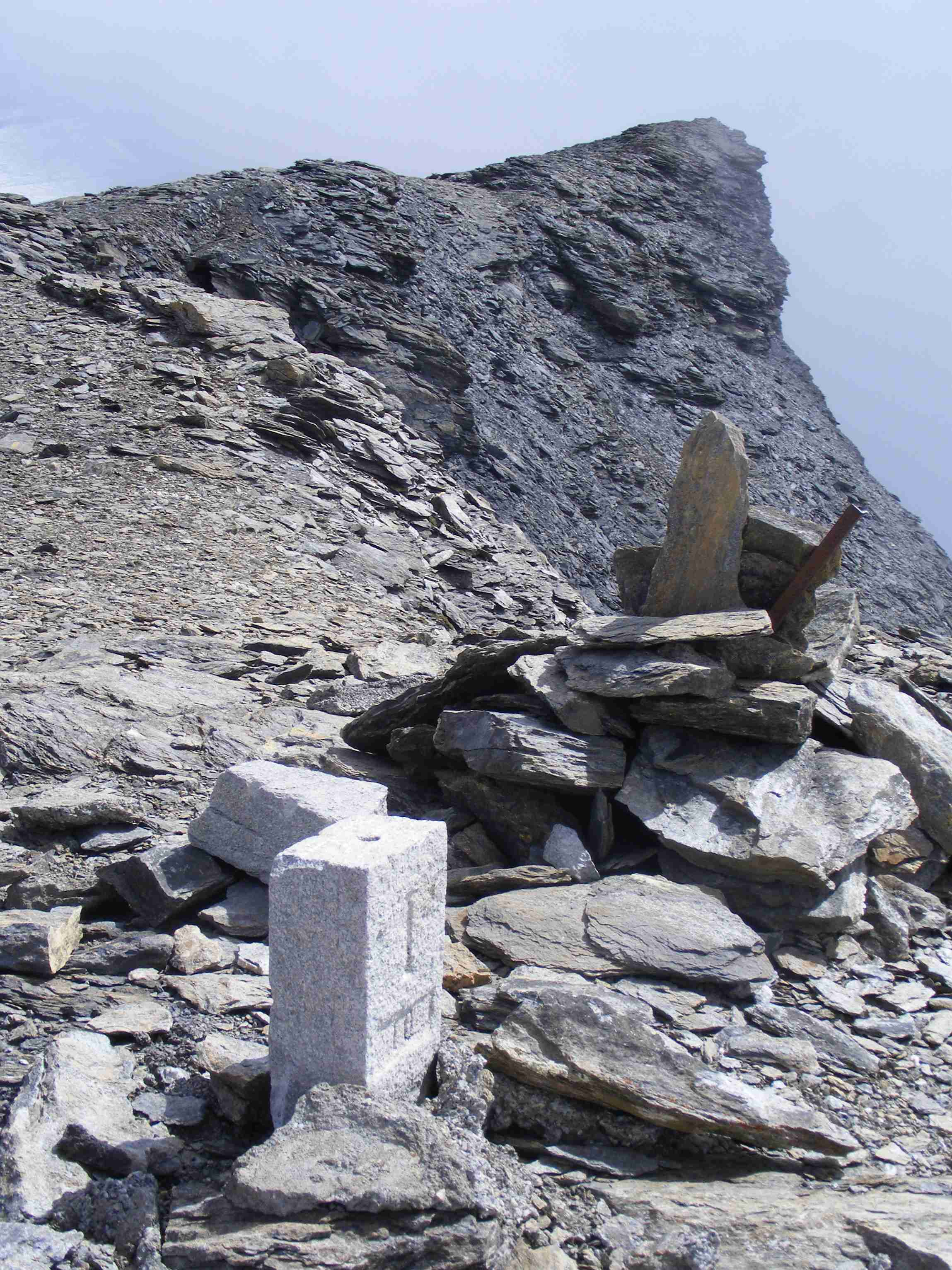 Punta Marmottere (Graian Alps, italian-french boprder)